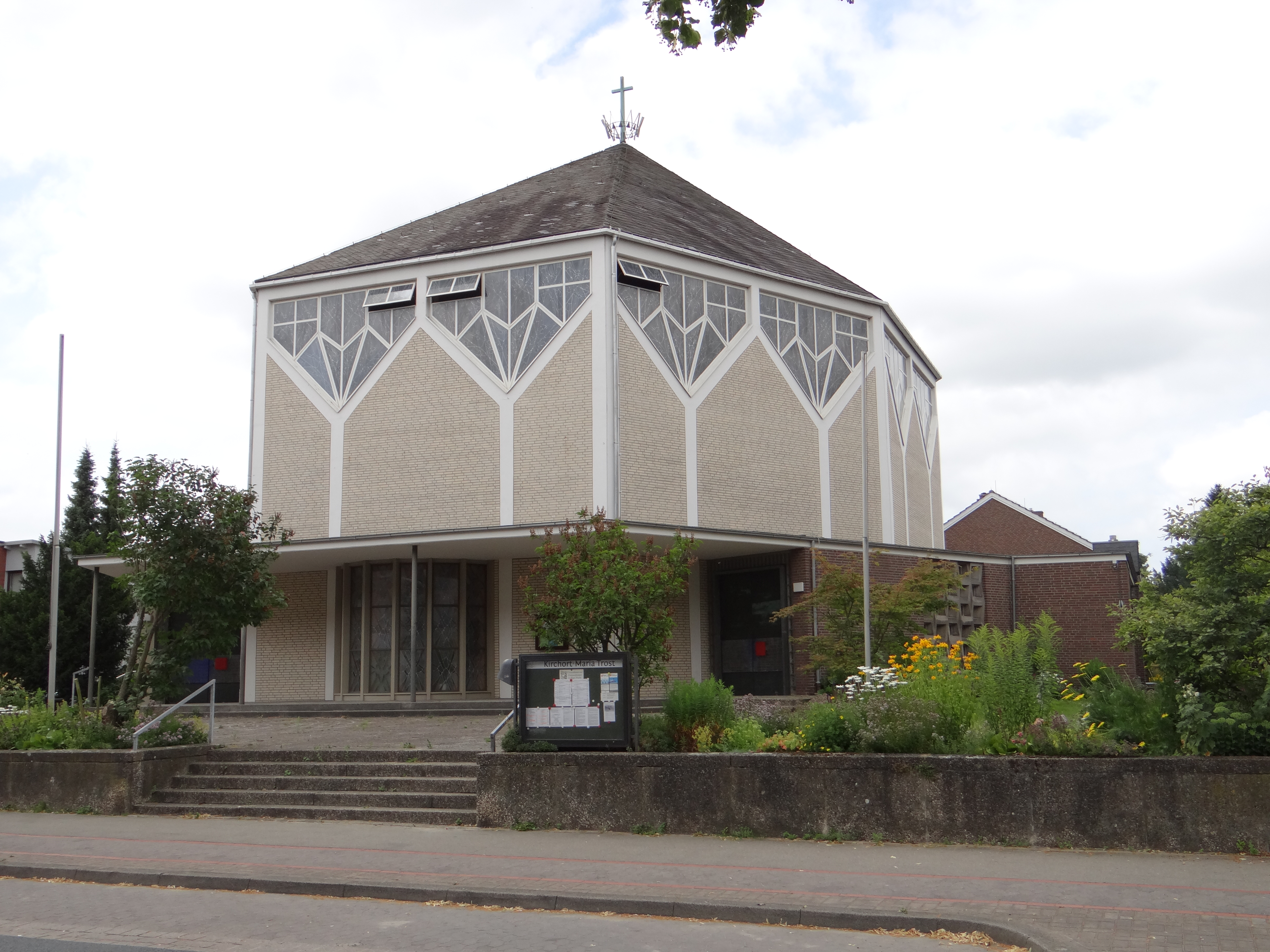 Church Maria Trost in Ahlem near Hanover, Germany.